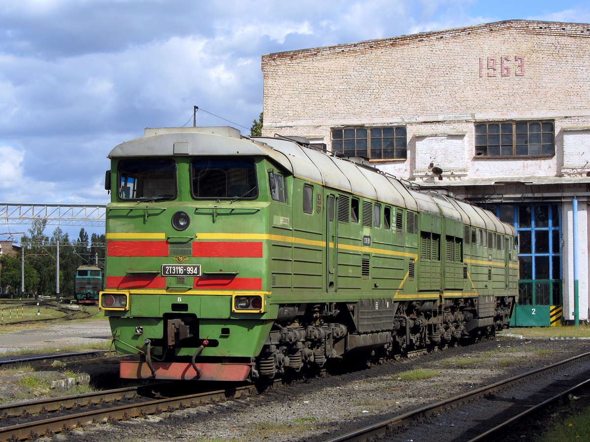 Diesel locomotive 2TE116-994, Poltava depot, Ukraine, 2011